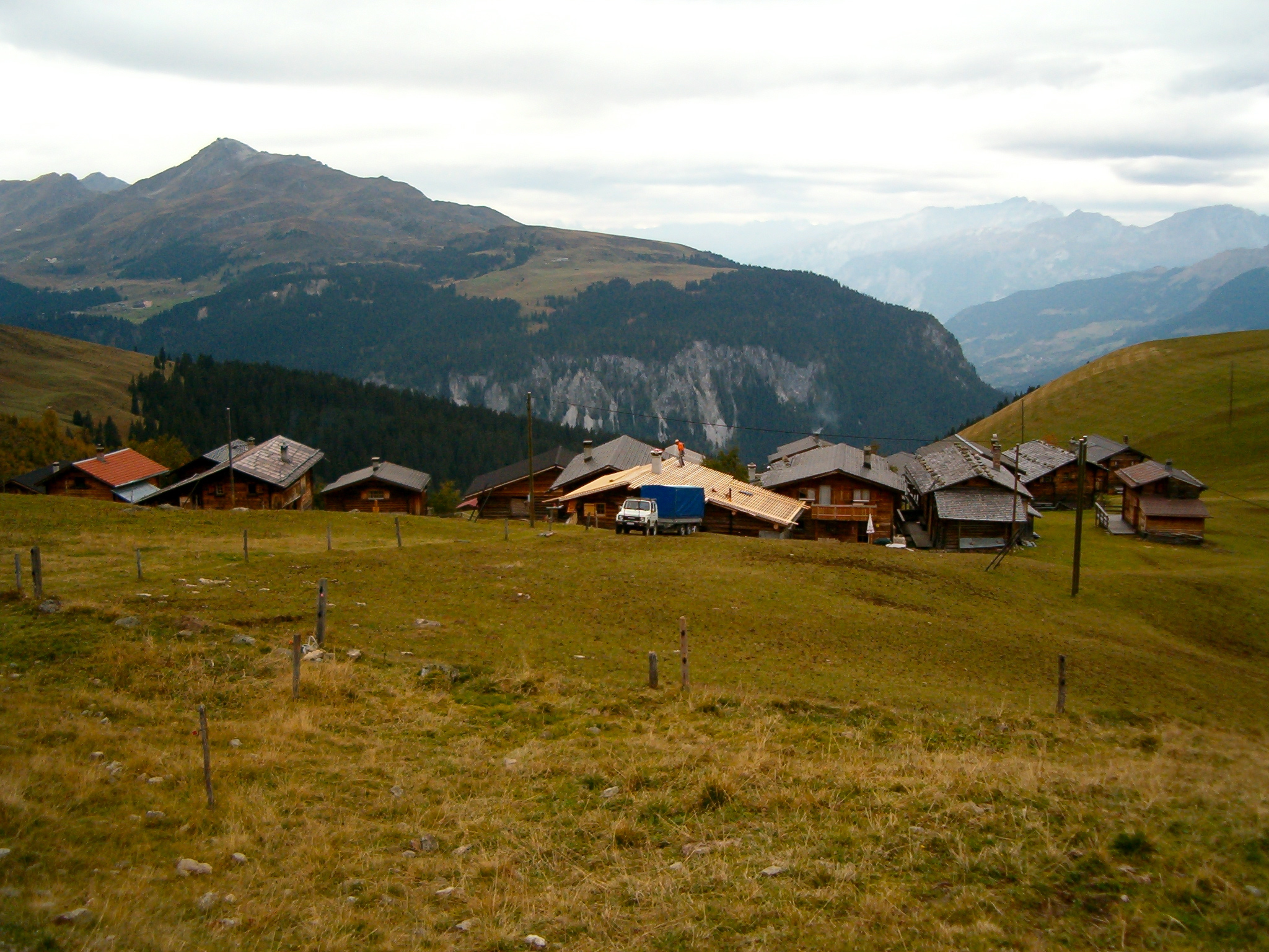 Medergen at Arosa/Switzerland with Weisshorn